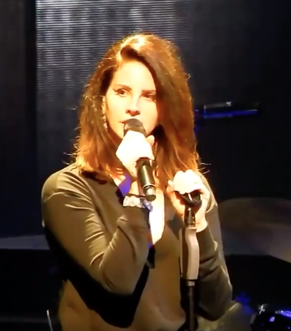 Lana Del Rey performing in Houston, Texas at Toyota Center, 2018.